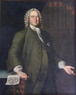 Colonial New Hampshire politician Richard Waldron